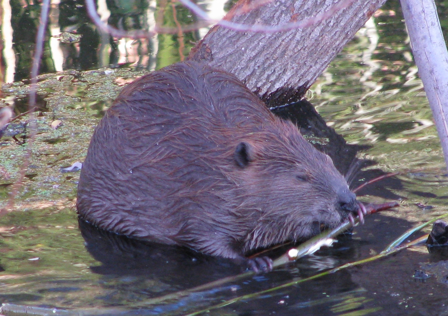 Beaver (Castor canadensis) have recolonized the Napa River in Napa, California